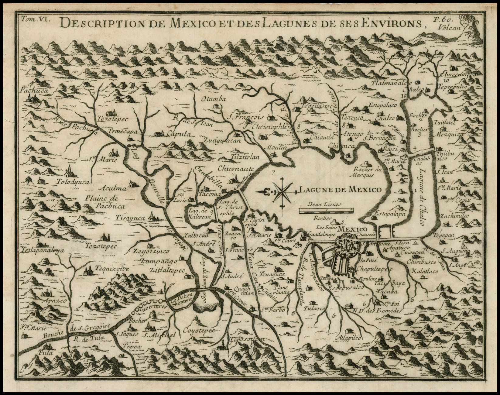 "Rare map of the area around Mexio City, centered on the large Lagune de Mexico and extends to include the surrounding mountains, rivers, towns and villages, reportedly derived from a copy an original native map while Careri was in Mexico. The map is drawn on a partial bird's-eye format, with an imaginary horizon that includes an erupting volcano at upper right. Many villages are located including Pachuca, Tacoma, Atlapilco, Tolodyuca, Tetlapanaloya, and Apazco. Careri's account states that the map is a copy of a map drawn by Charles Siguenza of an original drawn by native Americans. The Mexicans were told to search for a place that would be shown to them by the presence of an eagle standing on a cactus growing out of a rock. This place is Tenochtitlán or the present-day Mexico City. The present map is from an edition of Careri's account published in Paris. The work also appears in Churchill's collection of voyages and travels, published in London, 1704."